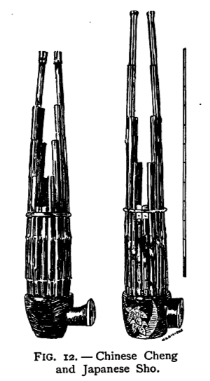 "Fig. 12. — Chinese Cheng and Japanese Sho."